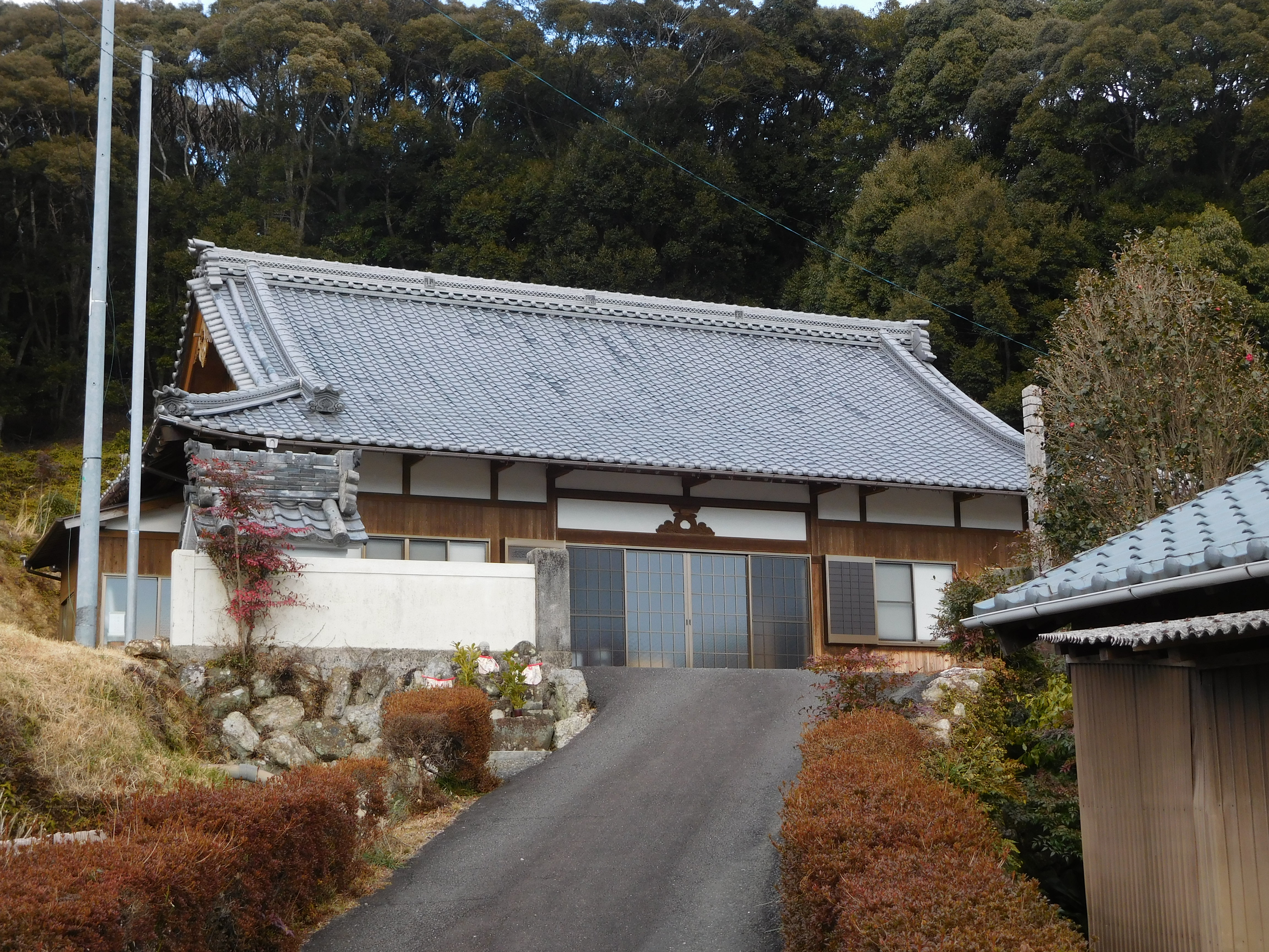 This is Fukuju-ji Temple in Isobacho-Gochi, Shima, Mie, Japan.